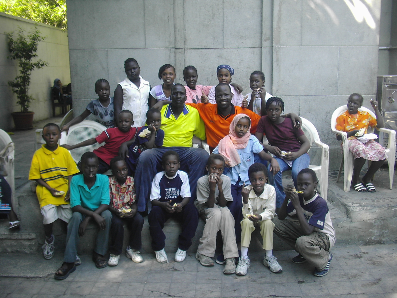 Picture of class at St. Andrews United Church of Cairo, Egypt. I took the picture myself while working at the school in 2005.